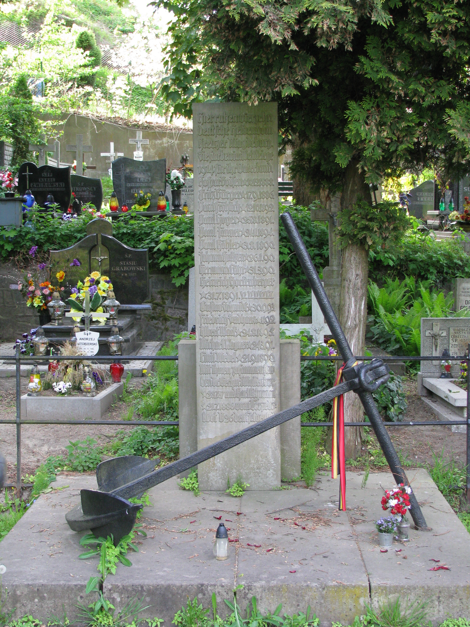 Memorial for SMS Magdeburg sailors in the Gdańsk Garrison Cementery, Poland.